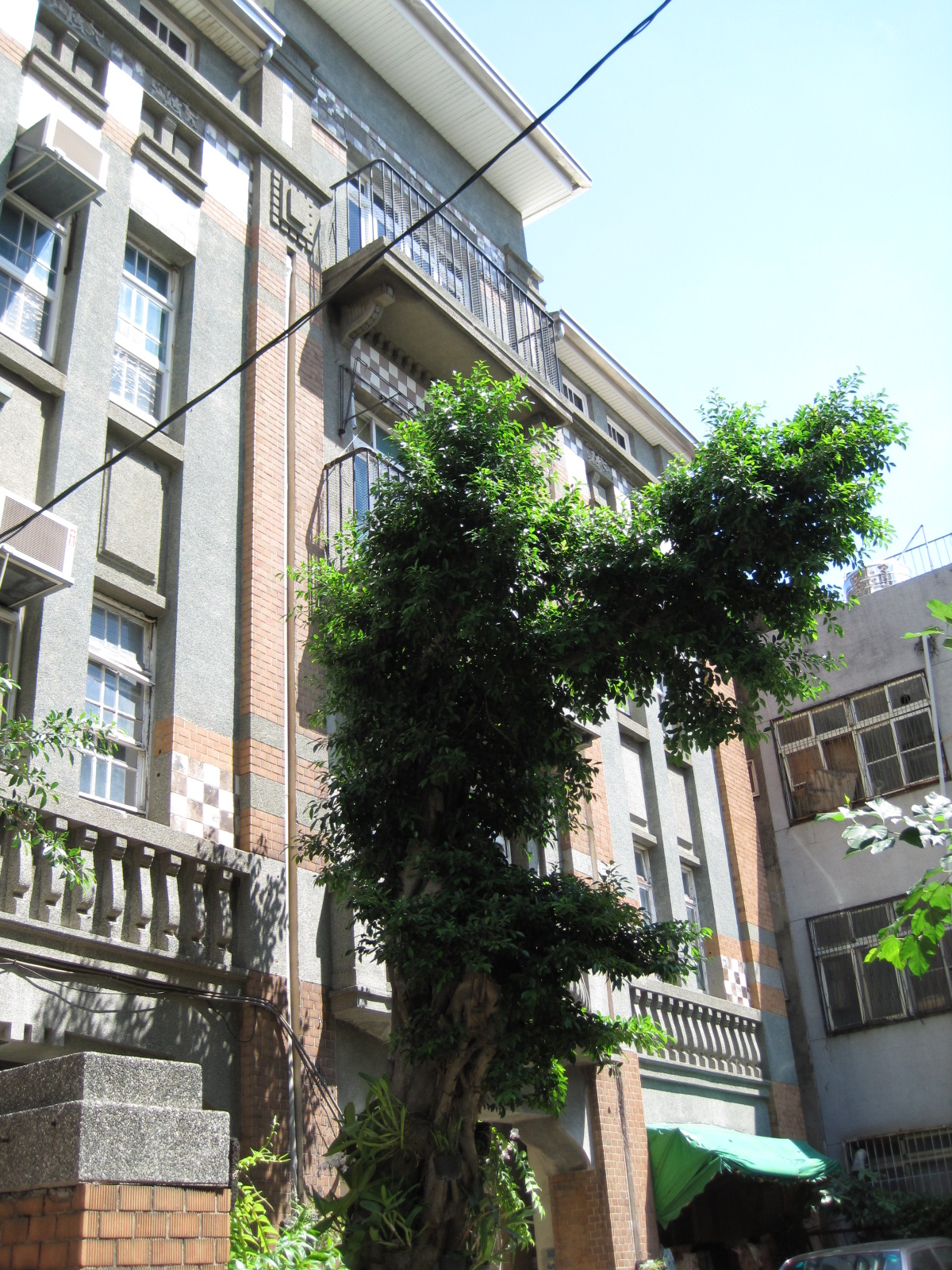 A tree in front of the Old Guangsheng Building.中文（台灣）: 原廣陞樓前的一棵樹